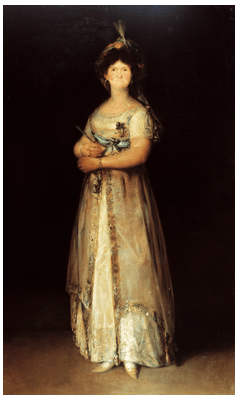 Portrait of Maria Luisa of Parma (1751-1819)